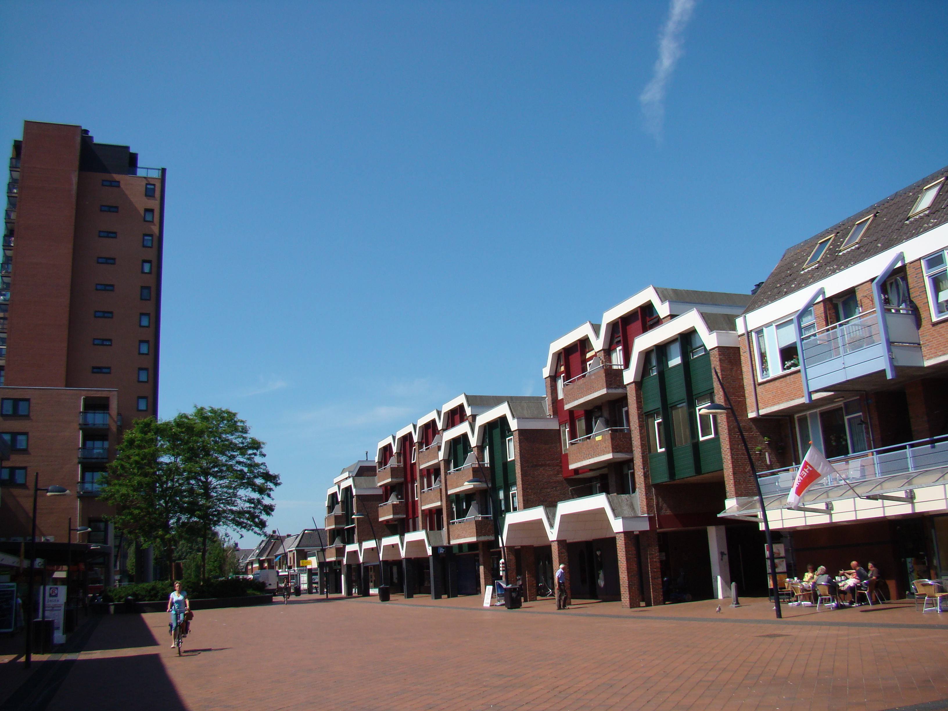 Impressions of Stadskanaal (Netherlands)